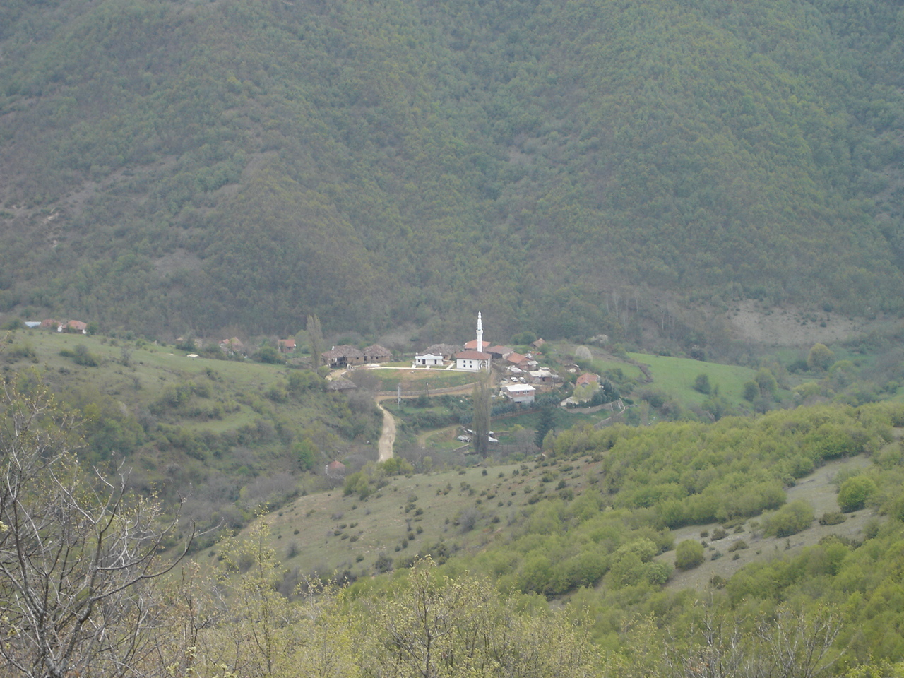 village of Crvena Voda, near Skopje, Macedonia